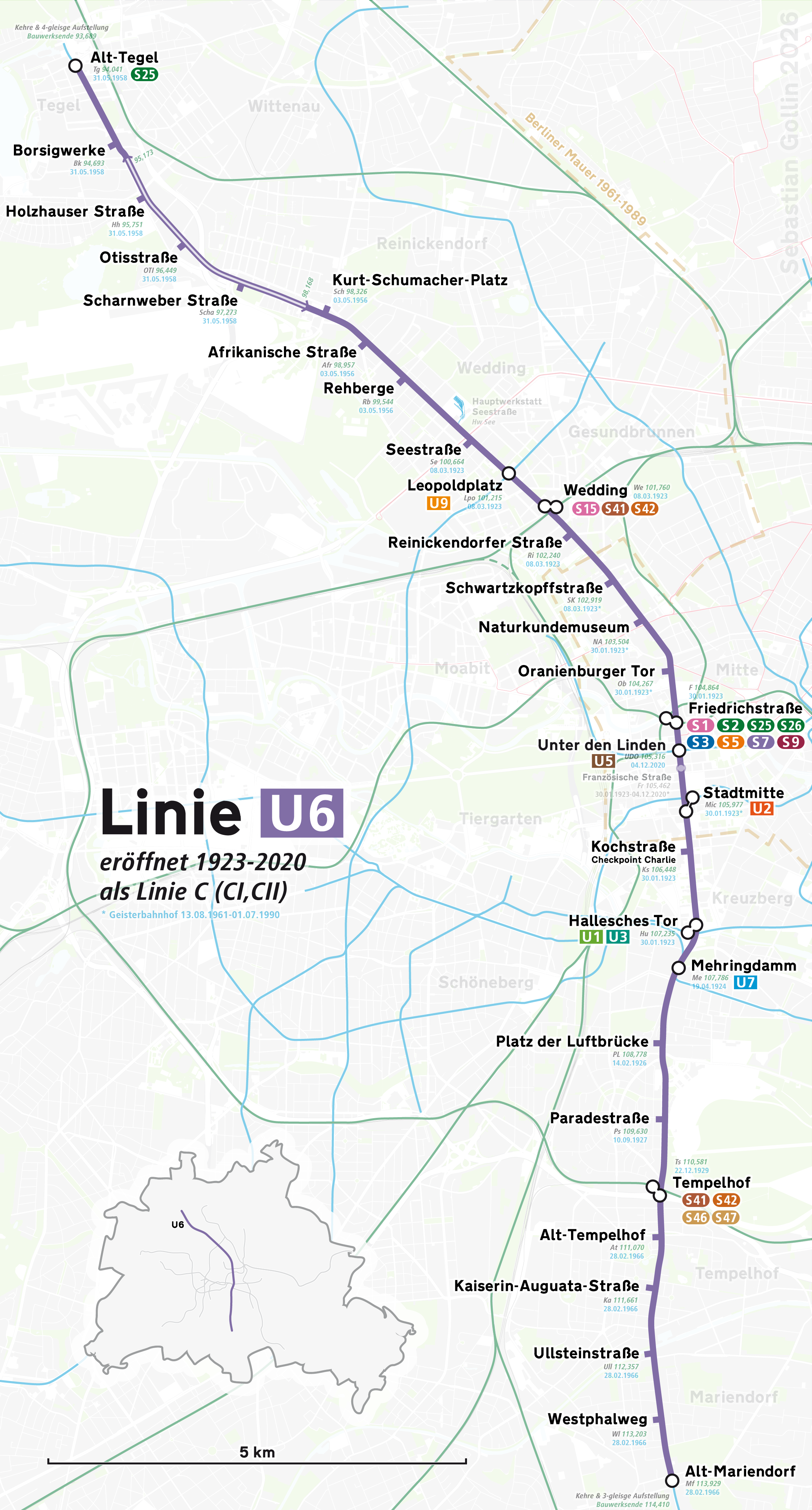 Map of Berlin's underground line U6